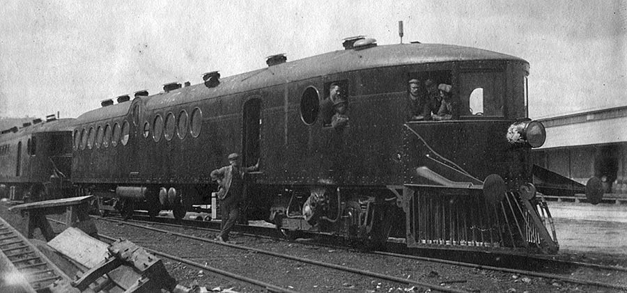 photograph Victorian Railways short lived McKeen railmotor in Wodonga circa 1911.[1]